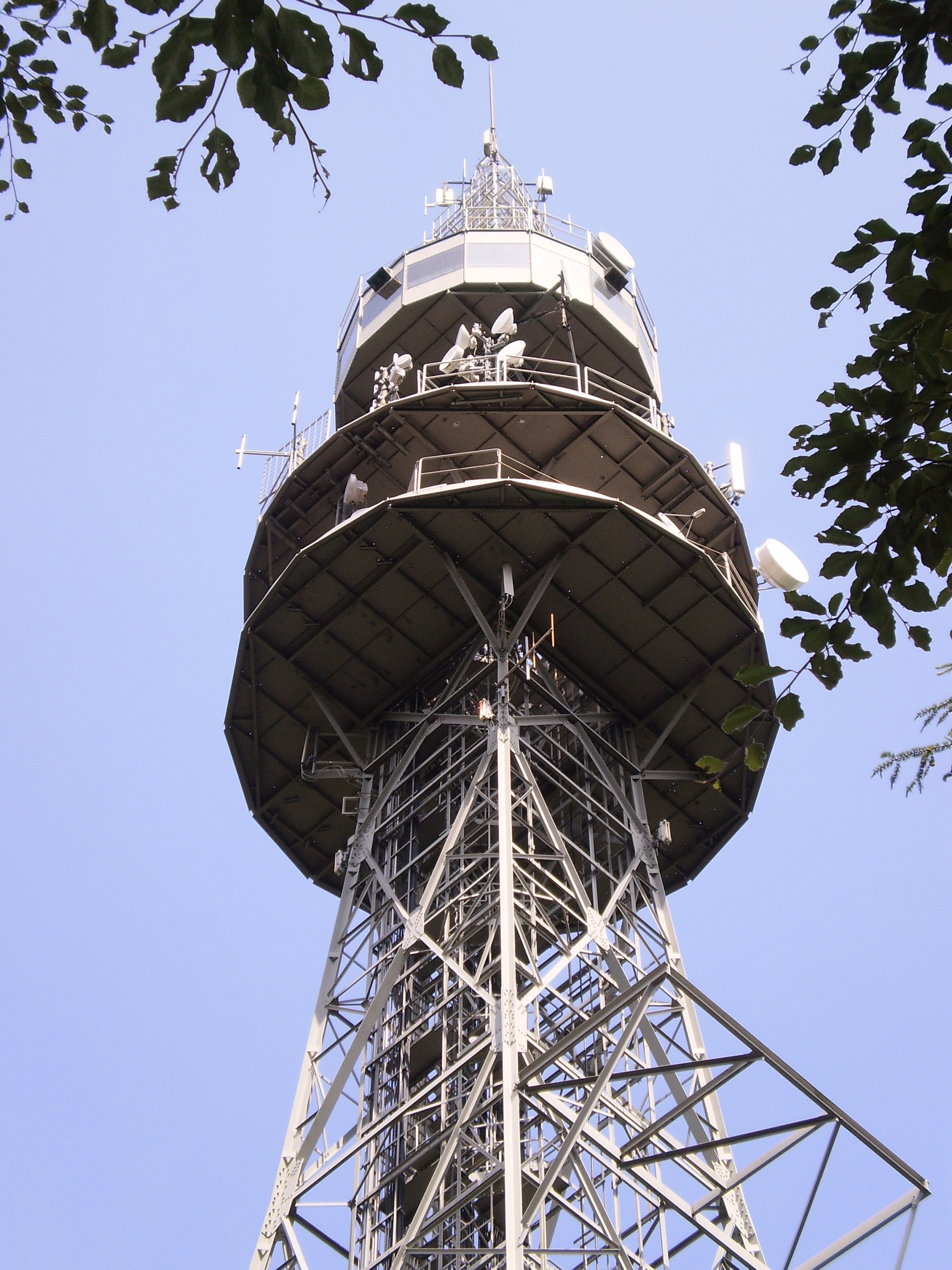 Communications tower in Ugchelen, NL (built 1959)